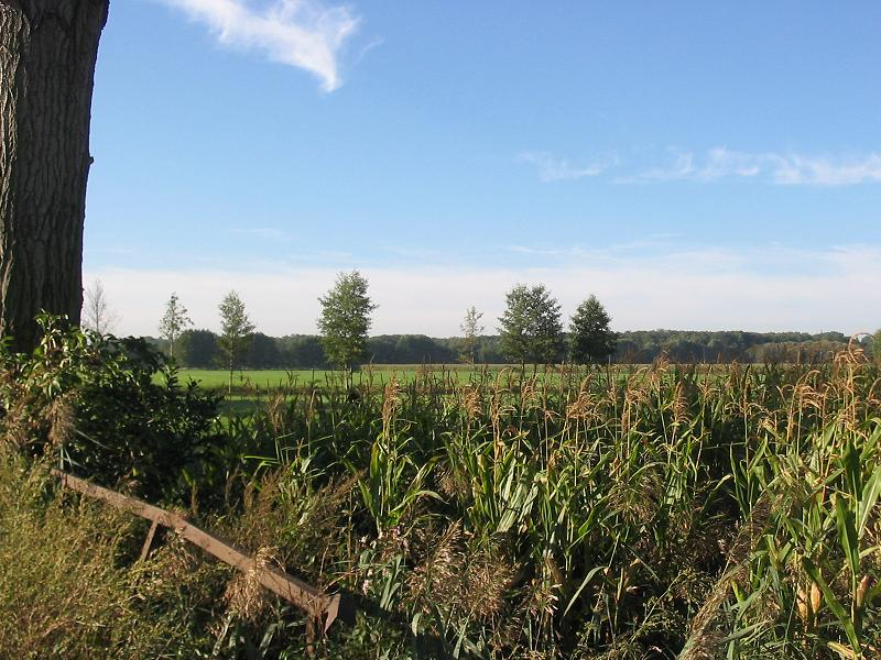 View from Neuendorf to the rest of the „Linther Oberbusch“ in the „Urstromtal“ – the „Linther Oberbusch“ once was a broad swampy wood. The village Neuendorf is a part of the town Brück in the district Potsdam Mittelmark, state Brandenburg, Germany. The village is situated on the north border of the „Baruther Urstromtal“ (glacial valley) subplateau Zauche.